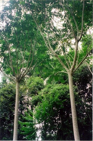 Polyscias murrayi at Berrico Trig, Barrington Tops, Australia